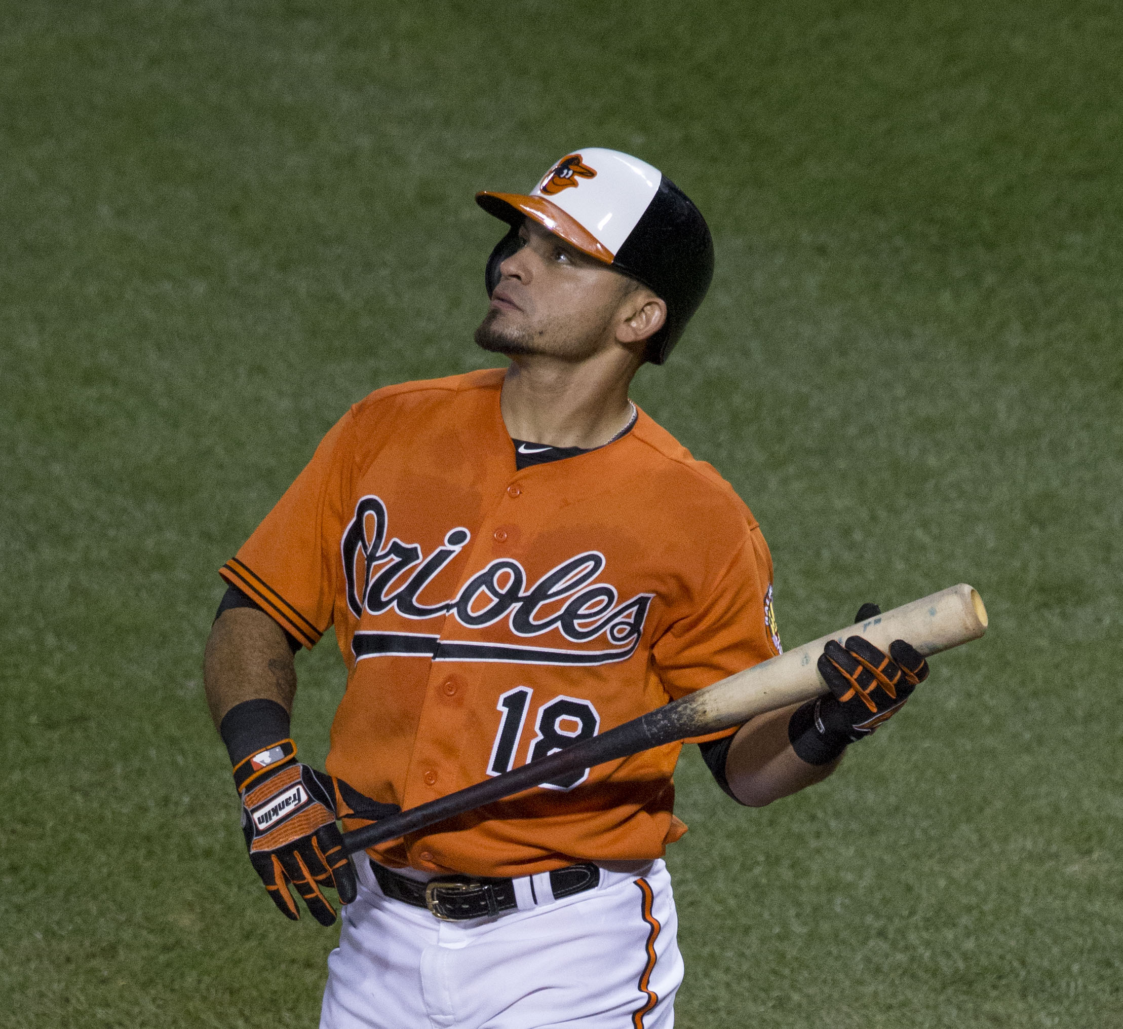 Gerardo Parra of the Baltimore Orioles in a game against the Detroit Tigers at Oriole Park at Camden Yards on August 01, 2015 in Baltimore, Maryland.